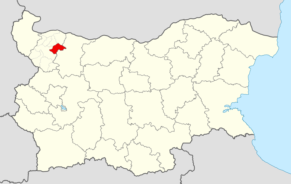 Location map of Boychinovtsi Municipality within Bulgaria and Montana Province. Equirectangular projection, N/S stretching 130 %. Geographic limits of the map: N: 44.4° N S: 41.1° N W: 22.1° E E: 28.9° E